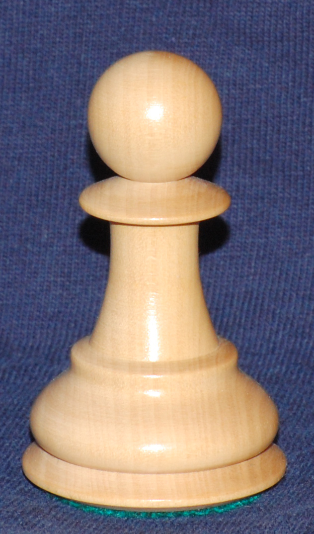 Pawn from my House of Staunton "Marshall" chess set